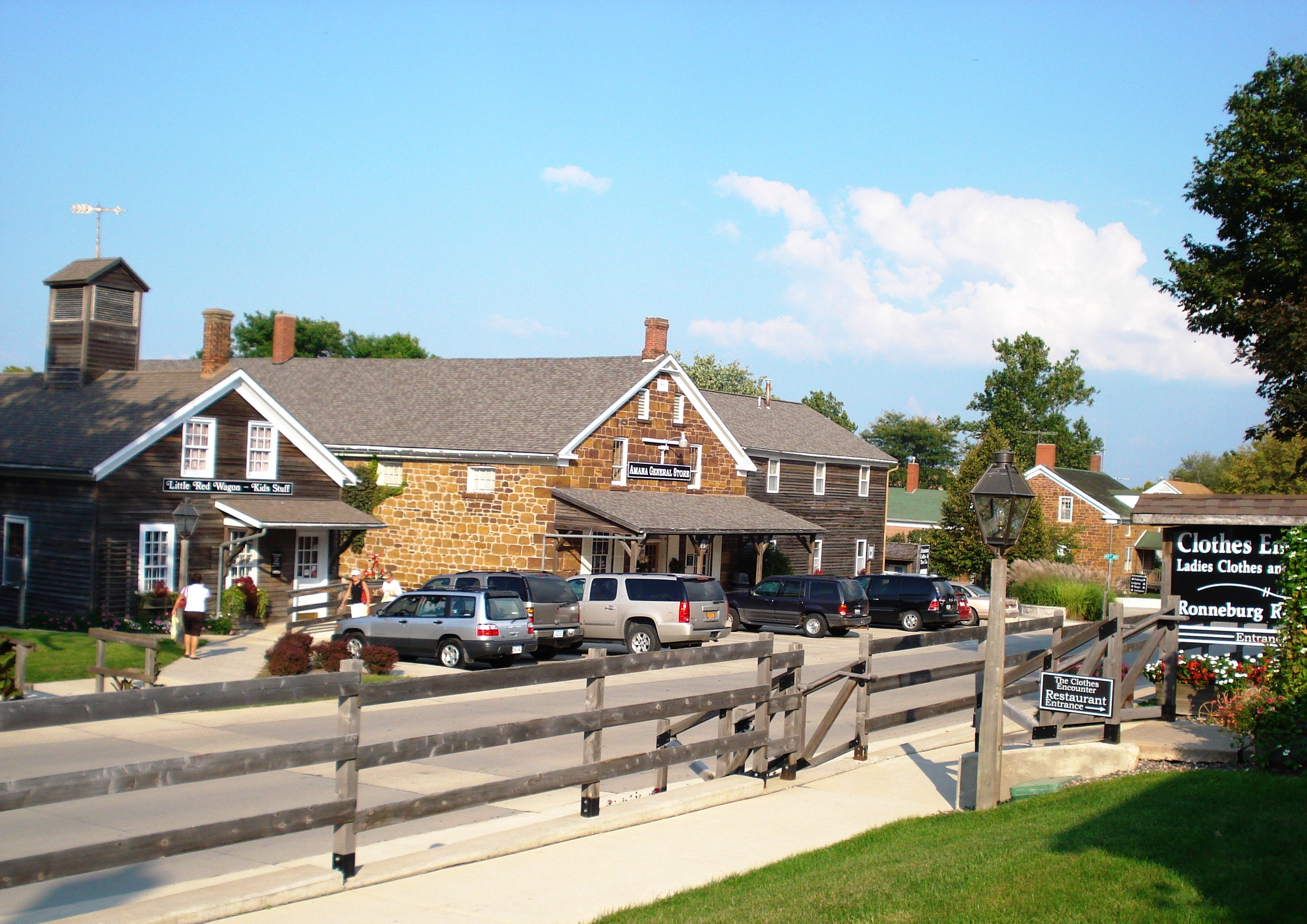 Street in the Amana Colonies, Iowa